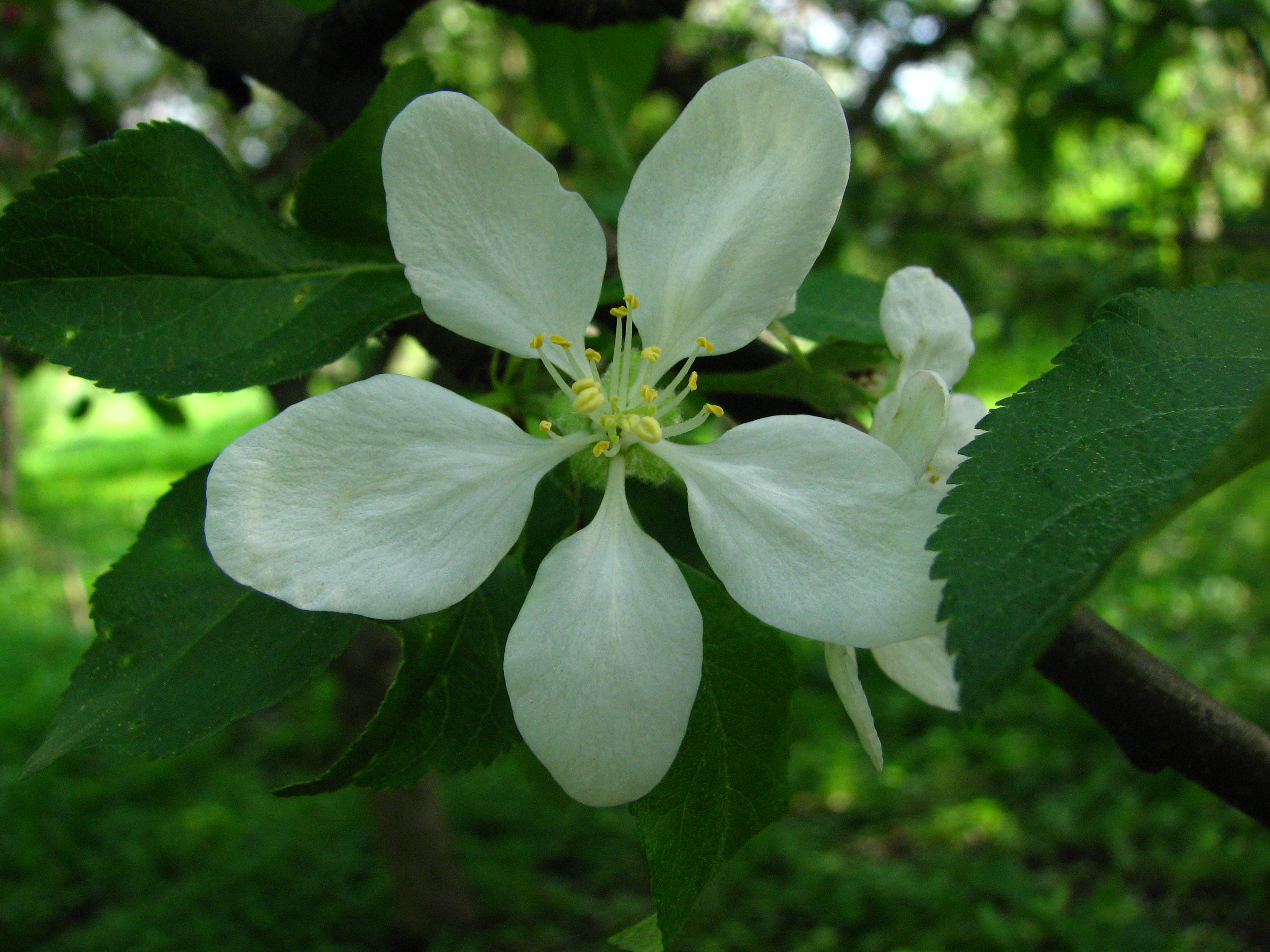 Malus orientalis in the Botanical Garden of Moscow State University (main area on the Sparrow Hills; the Apple orchard). Spring.